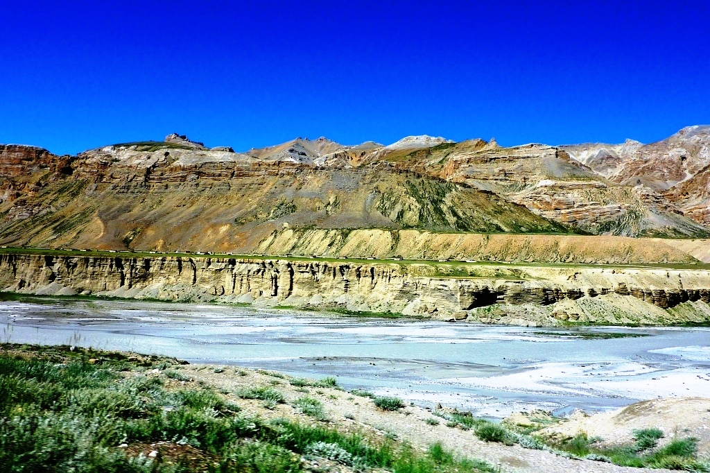 I took this photo on a trip to Ladakh in 2010